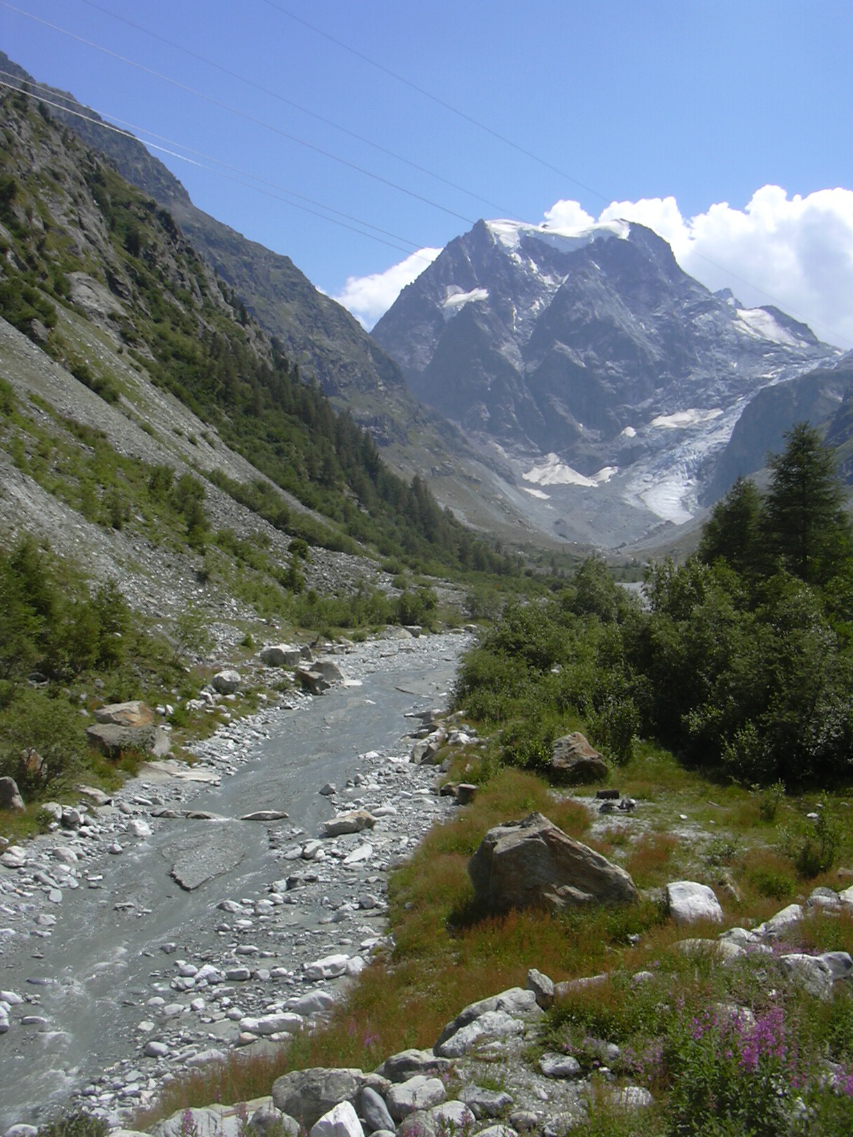 Arolla Valley, Valais/Switzerland